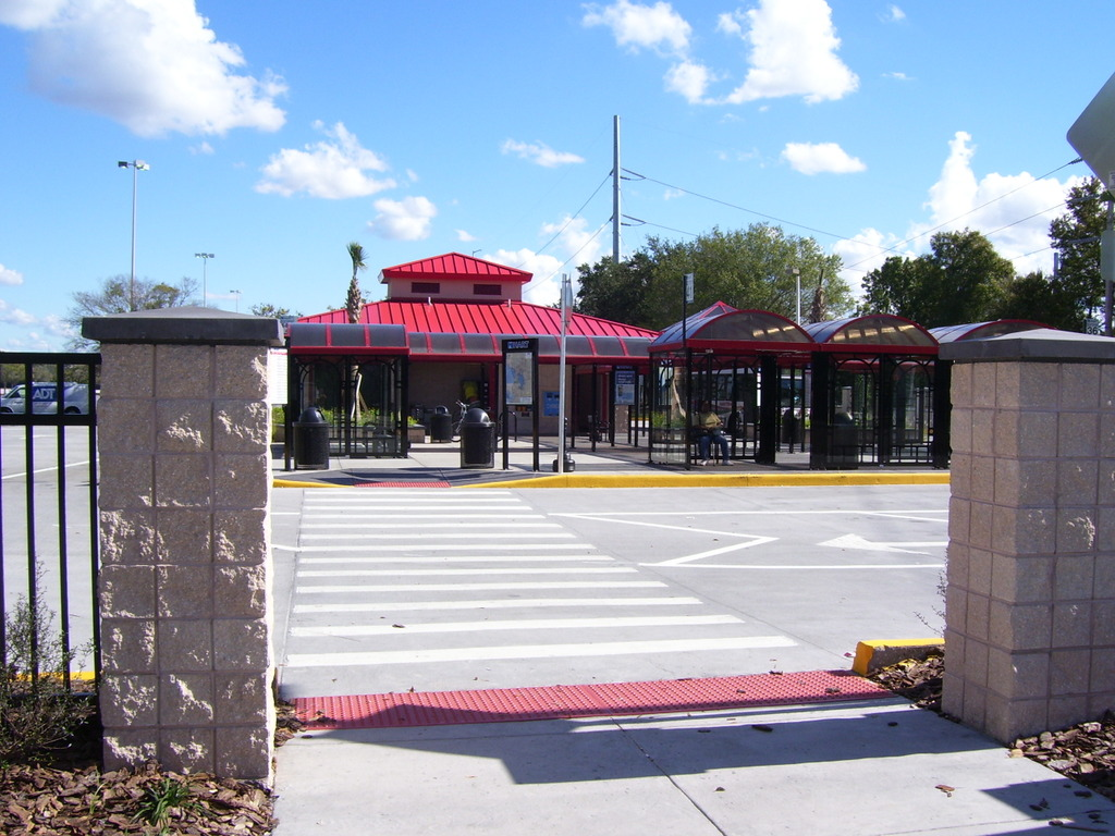 HART's West Tampa Transfer Center